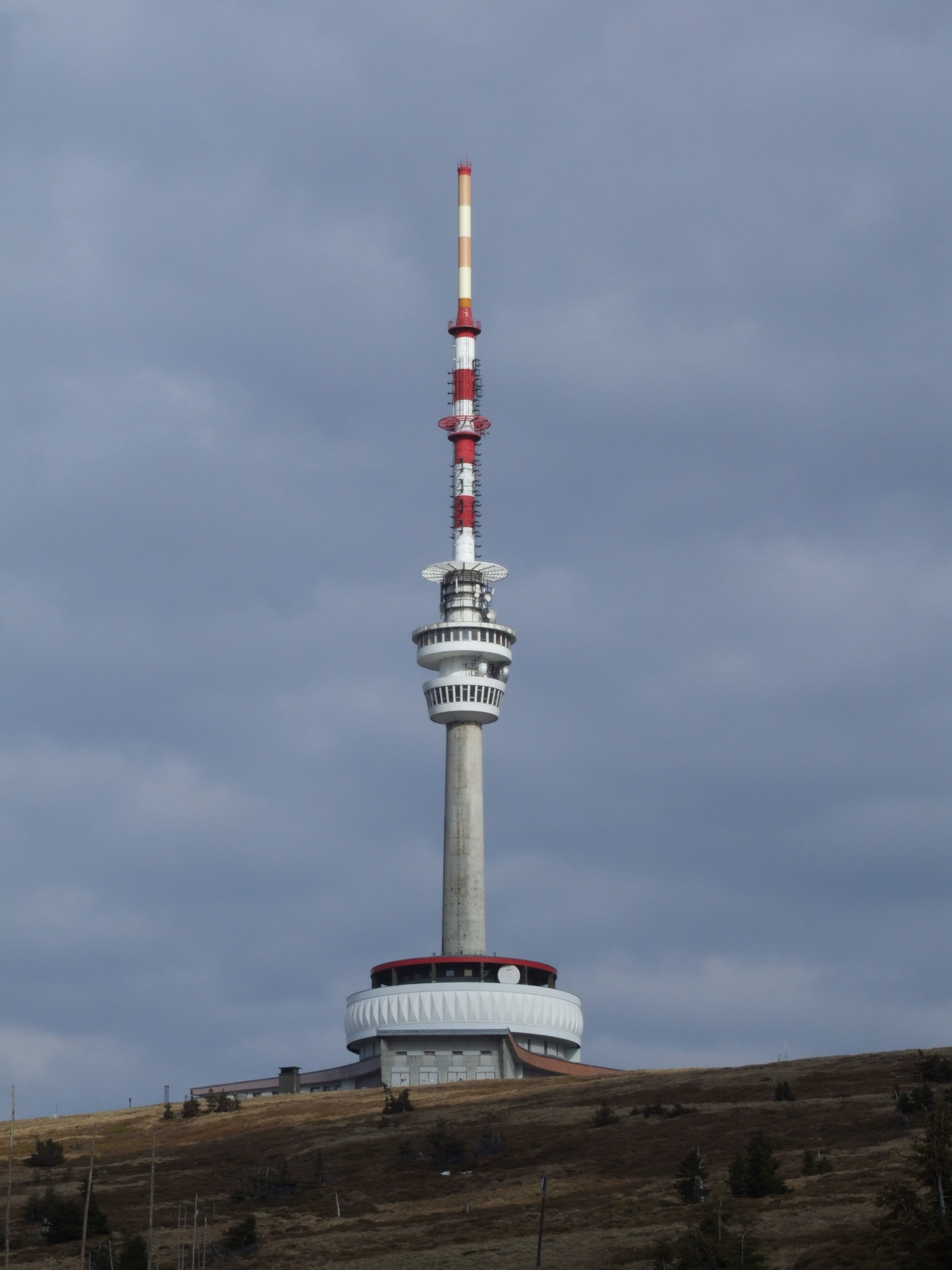 TV and observation tower on Praděd (Altvater) moutain